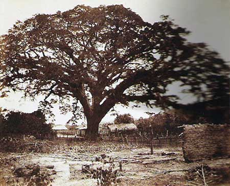 Photograph taken by M. Paul de Rosti around 1857, titled Der große Zamang. The photograph is part of a collection taken during his travels in the 19th century through Mexico and Venezuela. The French photographer dedicated the collection to Alexander von Humboldt, who described this particular tree in his studies in Venezuela.